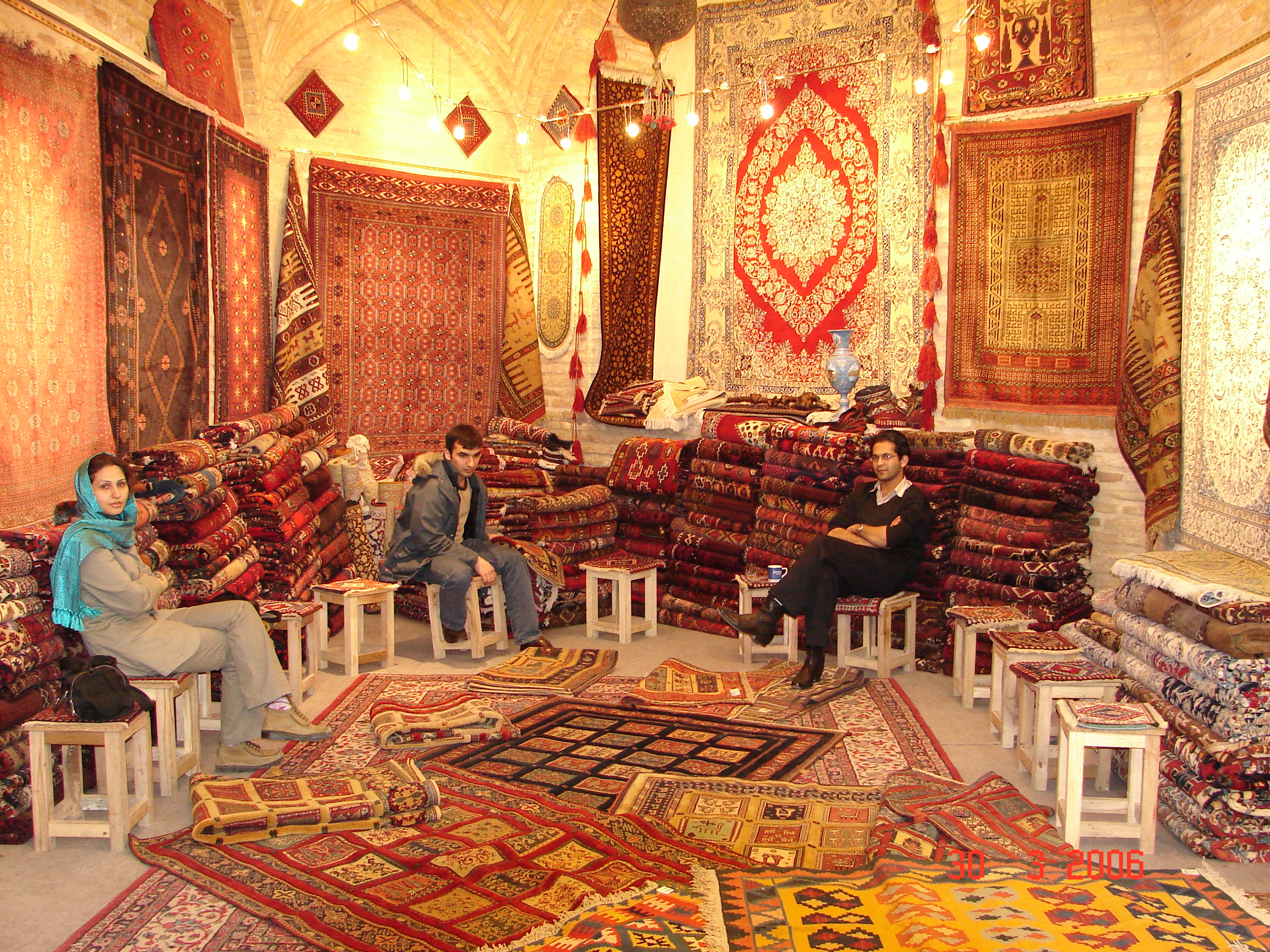 Esfahan Bazaar